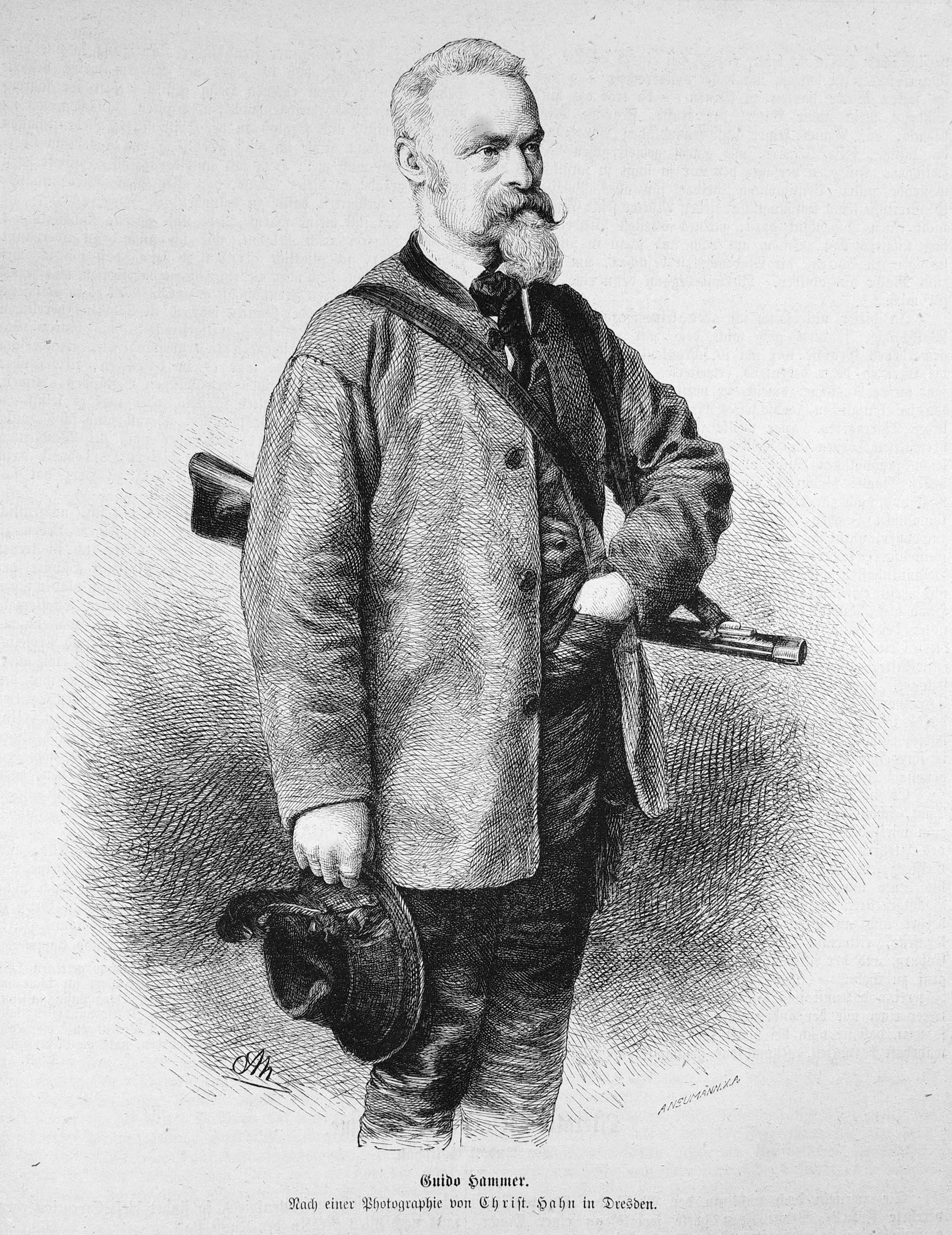 caption: "Guido Hammer. Nach einer Photographie von Christ. Hahn in Dresden."